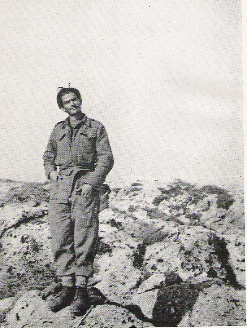 Kosta "Deerslayer" Kephaloyannis